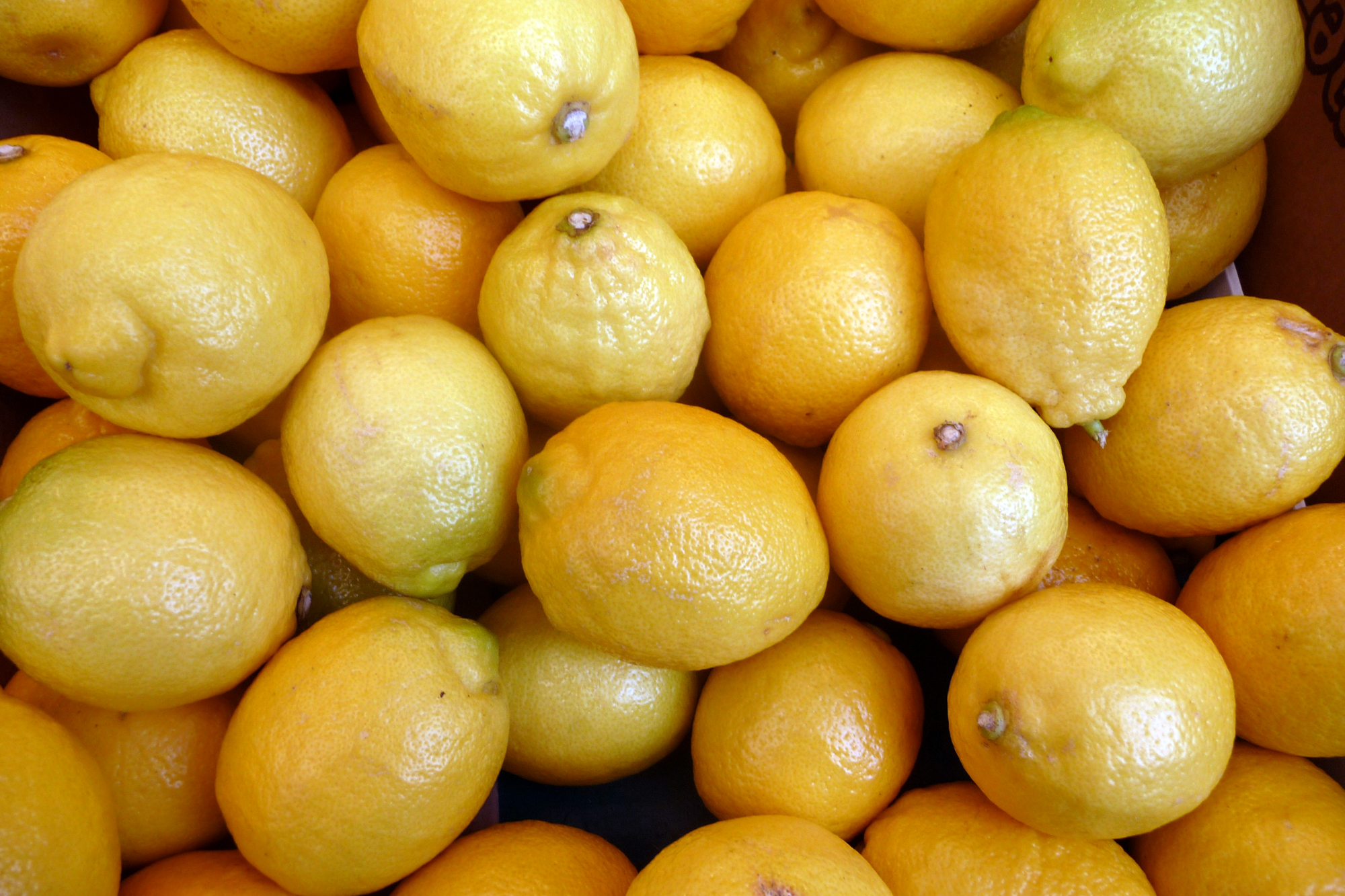 Lemons in a parisian market